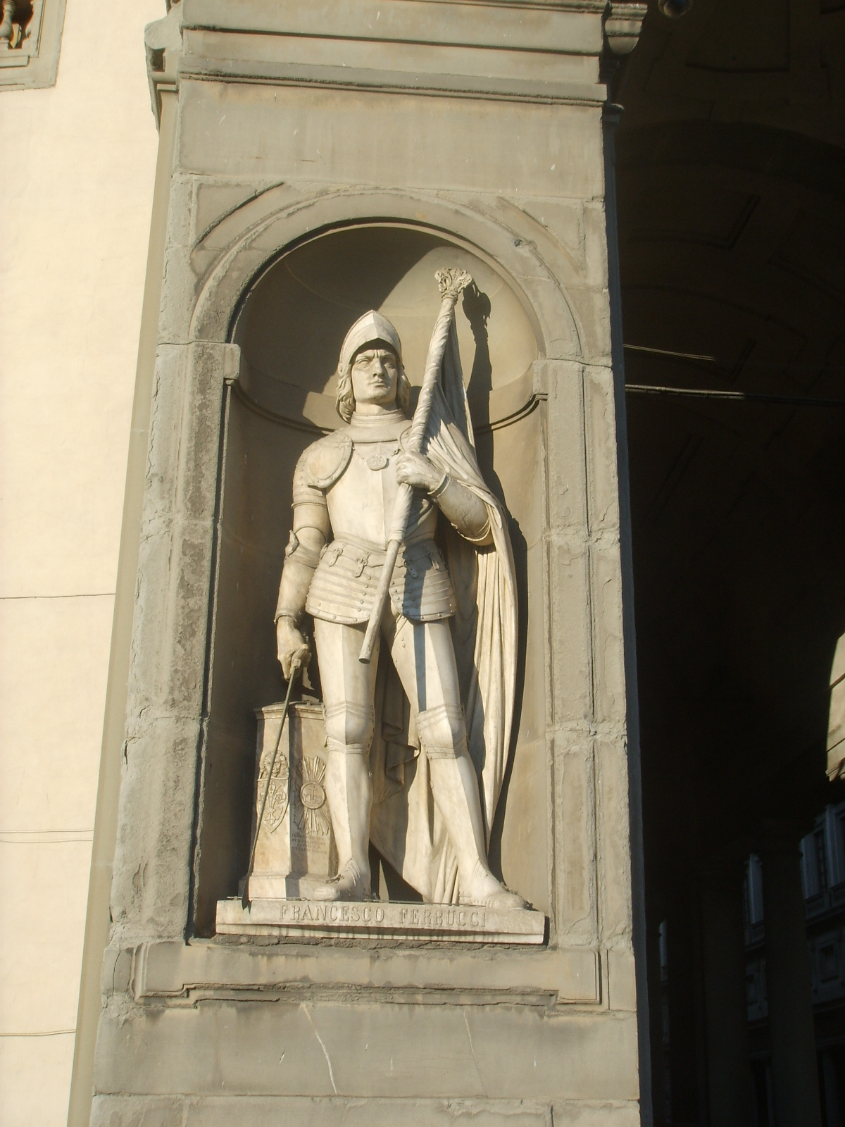 Statues in the Uffizi outside Gallery Famous florentine. See title description